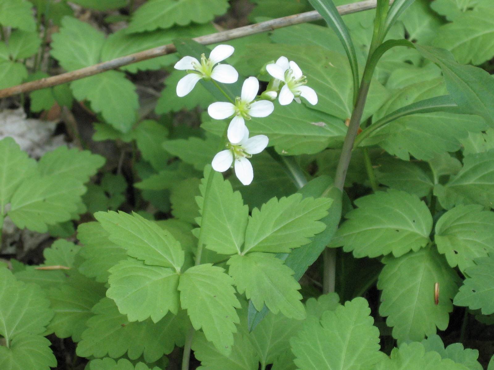 Cardamine diphylla. Photo taken in Wilket Creek Park, Toronto, Ontario